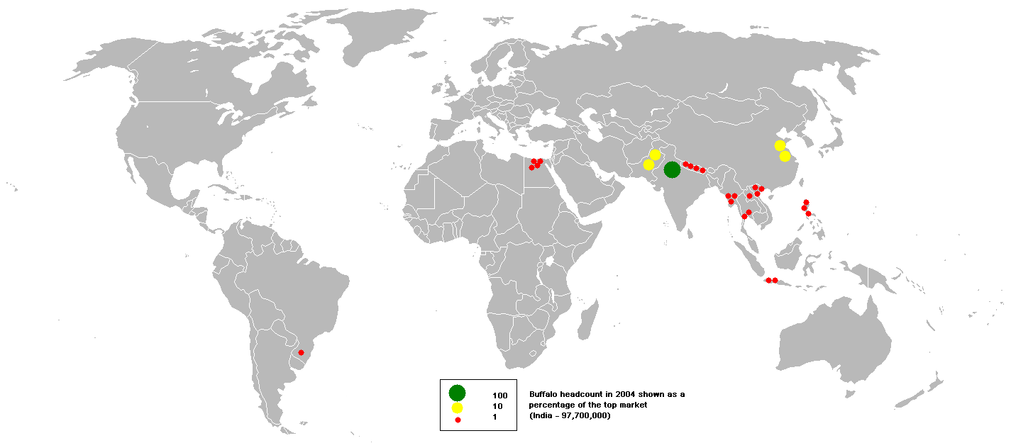 This bubble map shows the global distribution of buffaloes in 2004 as a percentage of the top market (India - 97,700,000). This map is consistent with incomplete set of data too as long as the top market is known. It resolves the accessibility issues faced by colour-coded maps that may not be properly rendered in old computer screens. Data was extracted on 16th June 2007 from Based on Image:BlankMap-World.png Commons:category:Bubalus bubalis Commons:category:Distribution maps